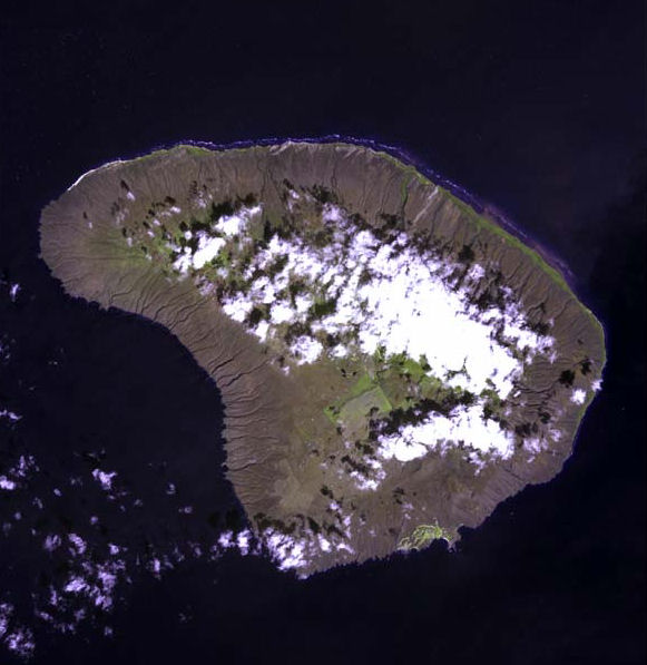 Lanai Island from satellite obtained from NASA and/or the US Geological Survey, and post-processed and produced by